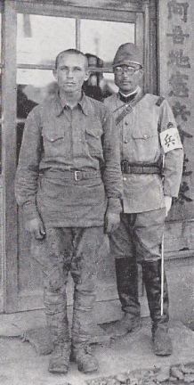 Battle of Lake Khasan-A Soviet POW